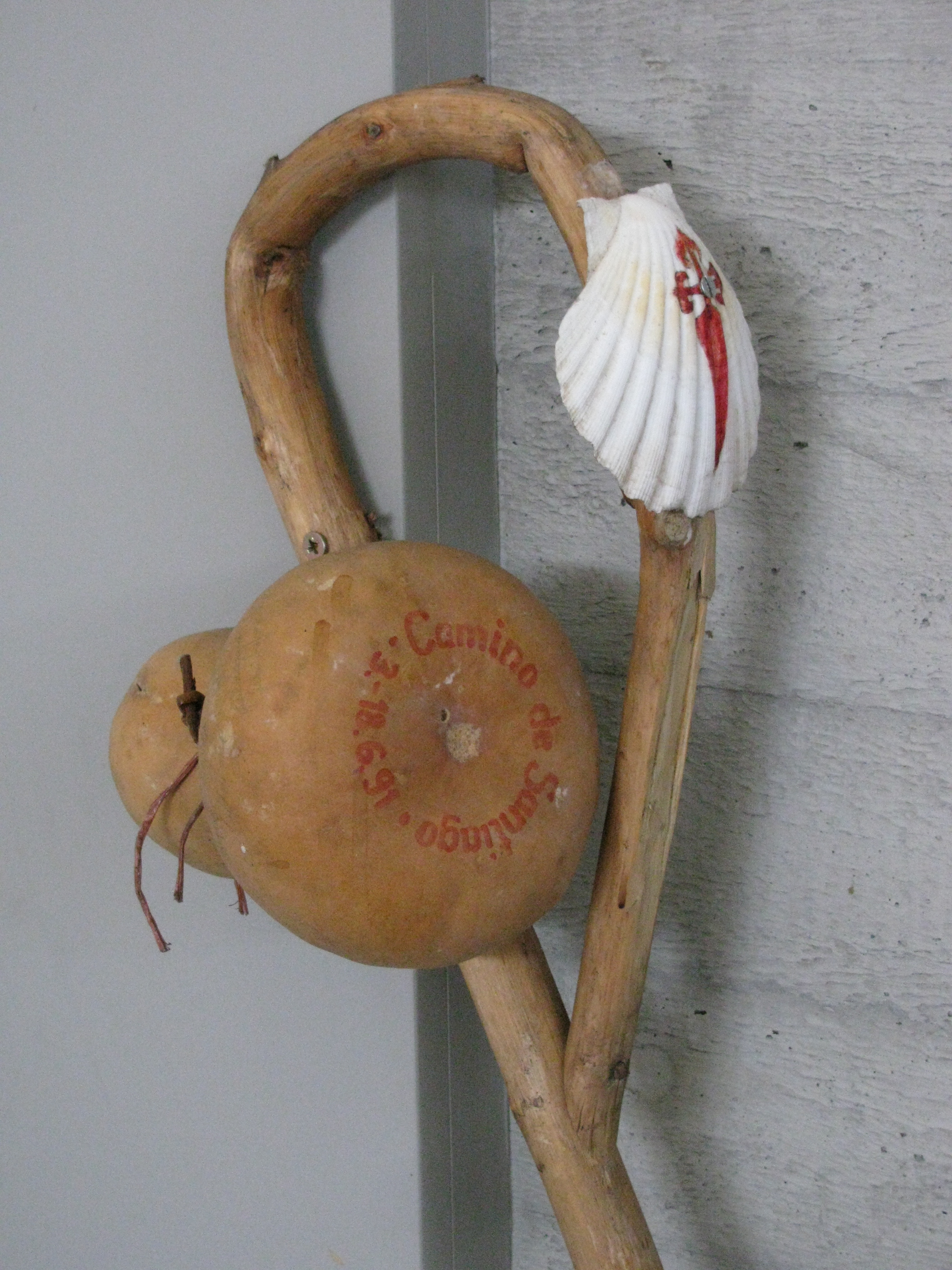 Germany - Baden-Württemberg - Bodenseekreis - Meckenbeuren - Brochenzell: Pilgrim´s staff with shell of Saint James and gourd, inside the St. Jakobus-church